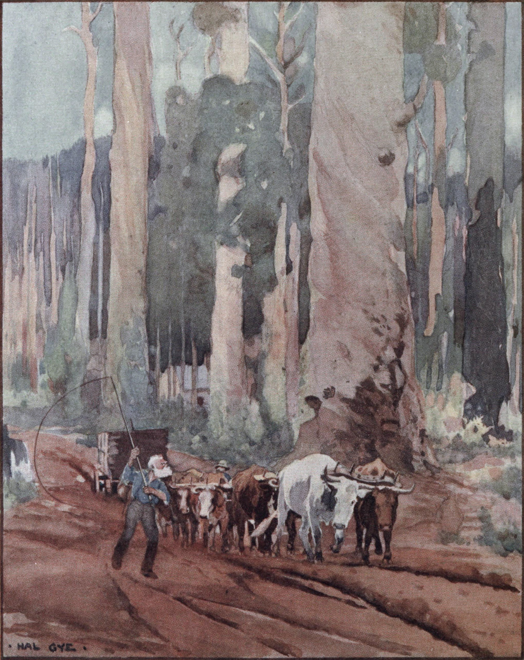 Frontispiece from Backblock Ballads and Later Verse by CJ Dennis, 1918